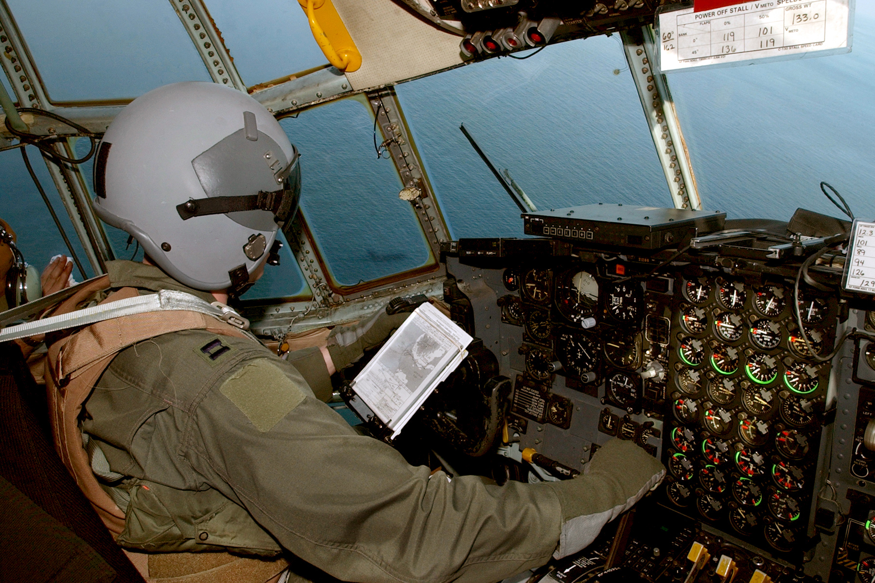 A pilot flying a C-130 Hercules assigned to the 36th Air Squadron (AS), performs his descent checklist as he and his flight crew approach Edwin-Andrews Air Base located in Zamboanga City. Members of the 36th AS are based out of Okinawa, Japan and are conducting missions in support of the Joint Special Operations Task Force Philippines as part of Operation Enduring Freedom.